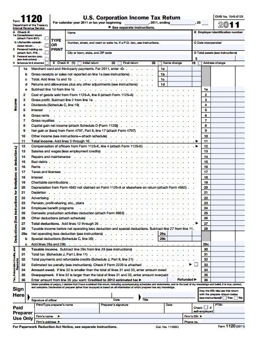 US corporation income tax return 2011 form 1120.